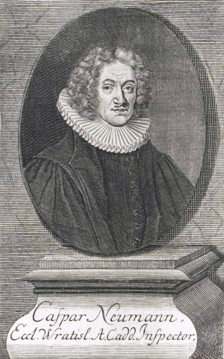 Kaspar Neumann (1648-1715) Protestant theologian from Germany